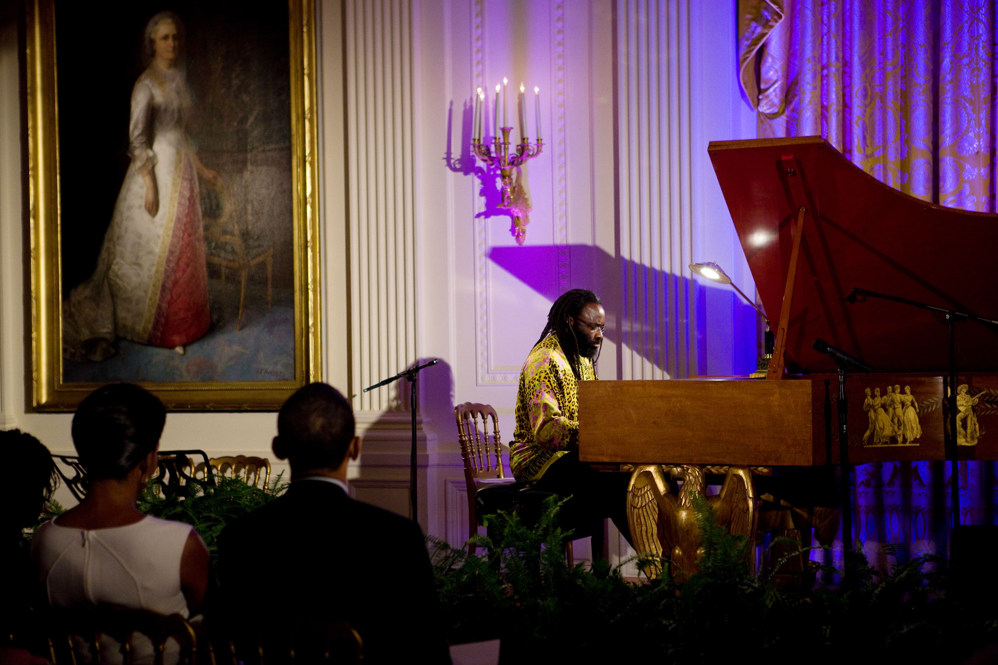 President Barack Obama and First Lady Michelle Obama listen to pianist Awadagin Pratt perform during the White House Music Series Evening of Classical Music concert, in the East Room of the White House, Nov. 4, 2009. (Official White House Photo by Samantha Appleton)